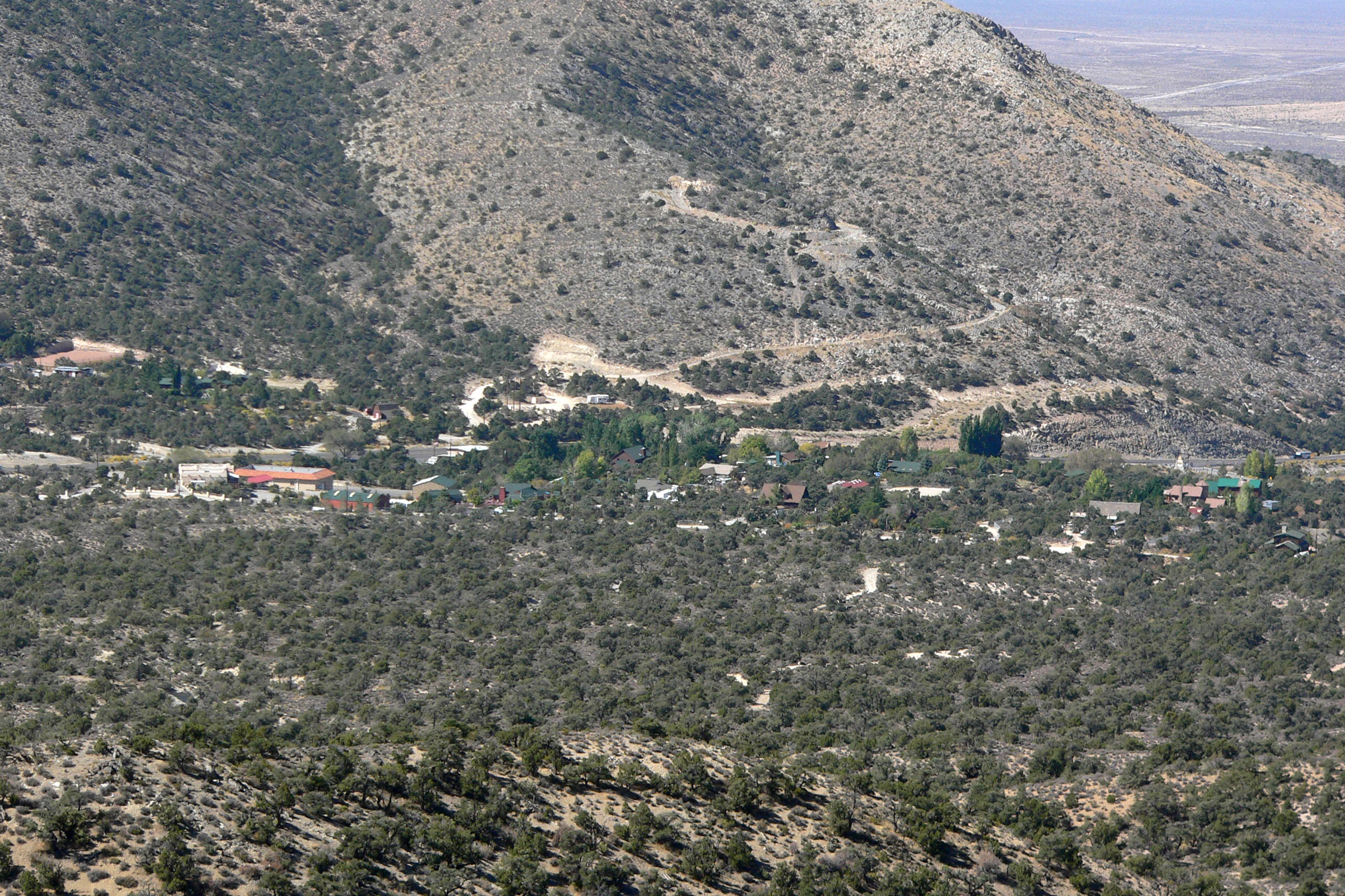 View of Mountain Springs, Nevada, southern Nevada